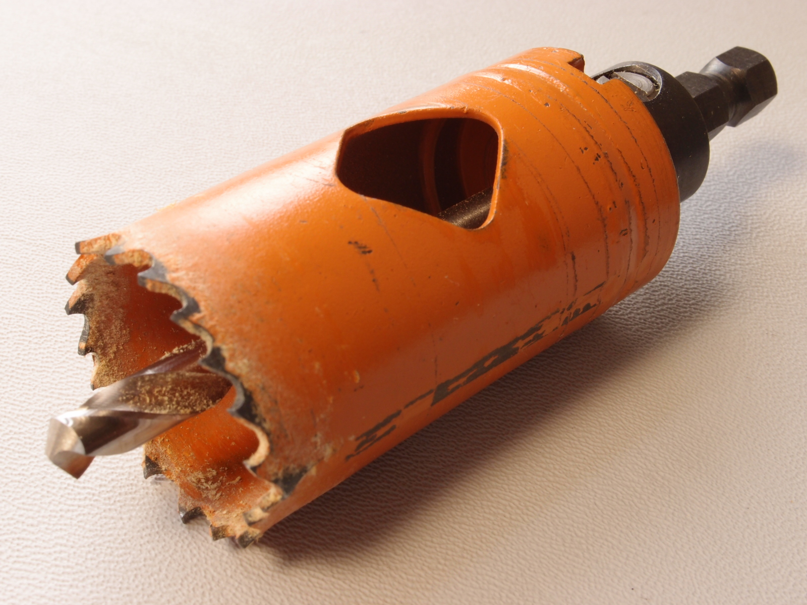 Hole saw bit, 1.25" (32mm).